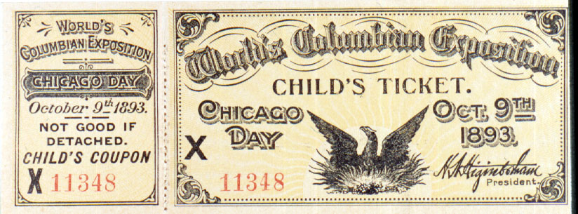 Child's Ticket, Chicago Day. October 9, 1893. Ticket from World's Columbian Exposition, Chicago. Digital Identifier: GN86844_11c Original material: 35mm color slide Date photo taken: 1993 World's Columbian Exposition Collection at The Field Museum